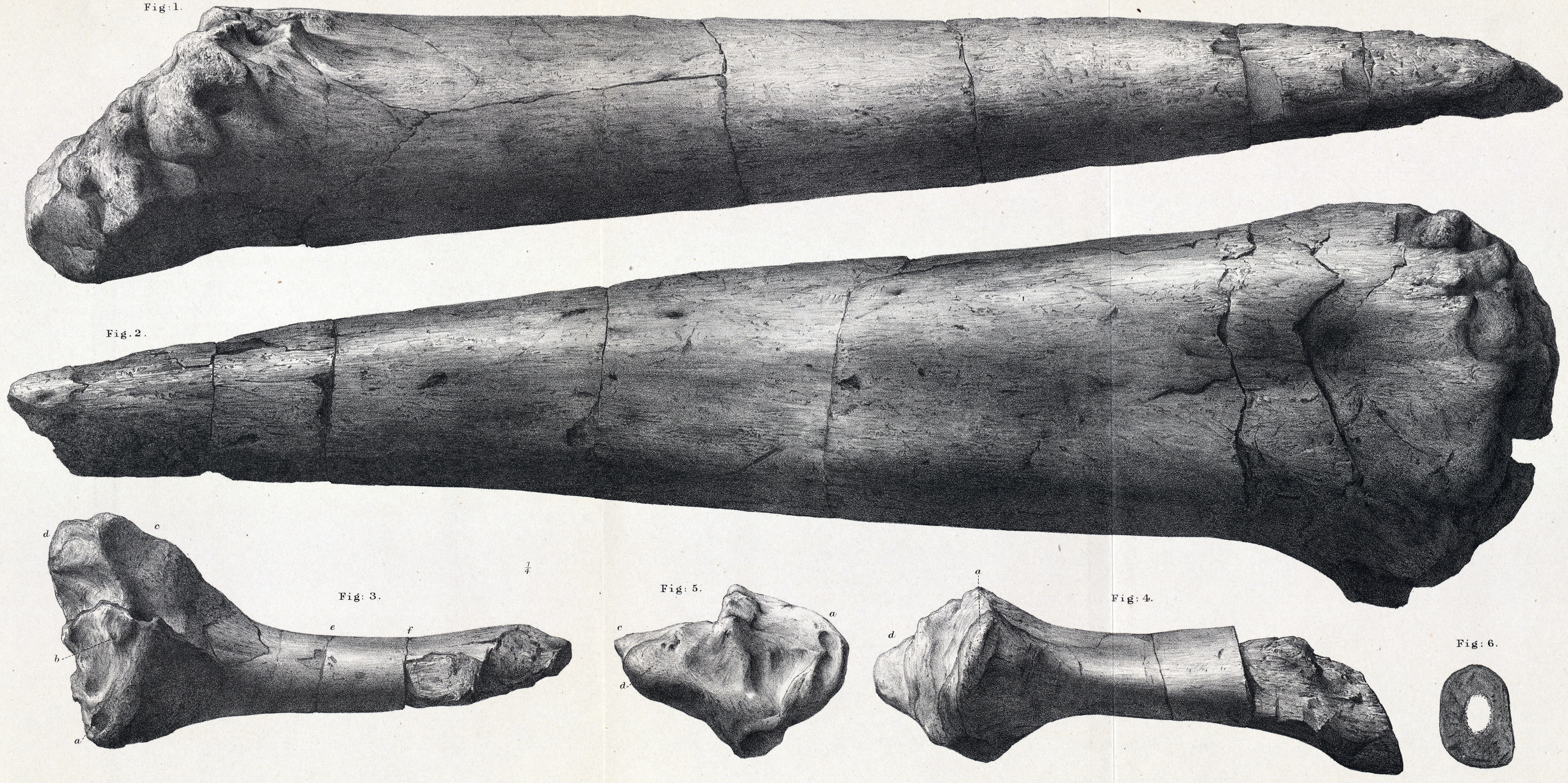 Dacentrurus (Omosaurus) armatus. Fig. 1. Radial side of left carpal spine. Fig. 2. Anconal side of the same. Fig. 3. Fibular side of right tibia. Fig. 4. Popliteal side of the same. Fig. 5. Proximal end of the same. Fig. 6. Transverse section of narrowest part of the shaft of the same. Figs. 1 and 2 are of the natural size; figs. 3-6 are one fourth the natural size. From the Kimmeridge Clay at Swindon, Wilts. In the British Museum.